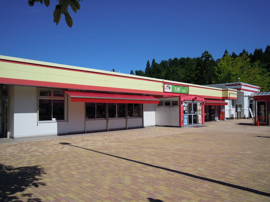 This rest area, Hanawa Service Area（for Tokyo）, is on Tohoku Expressway, in Kaduno City, Akita Prefecture, Japan.